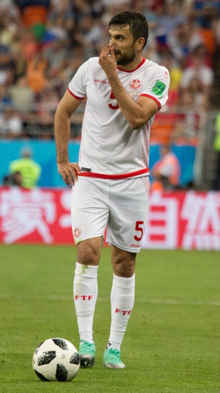 Oussama Haddadi